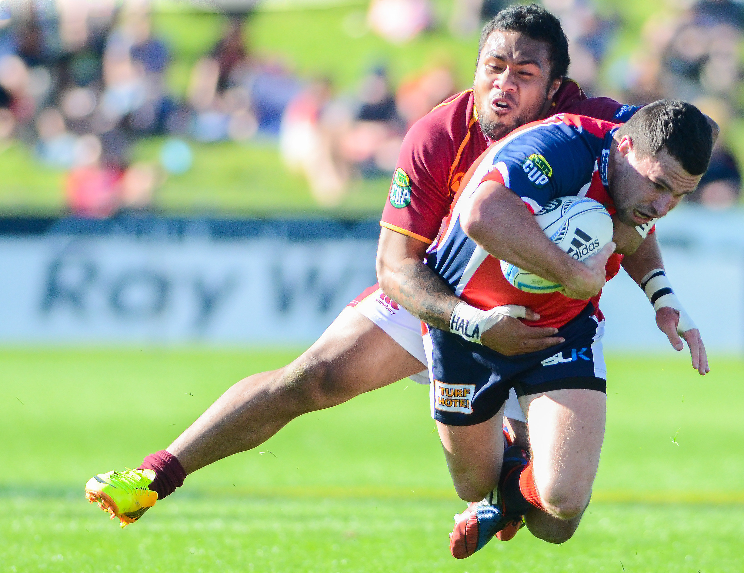 ITM Cup semi-final Tasman Makos v Southland Lansdowne Park Blenheim Saturday 19 October ,Ricky Wilson/Shuttersport